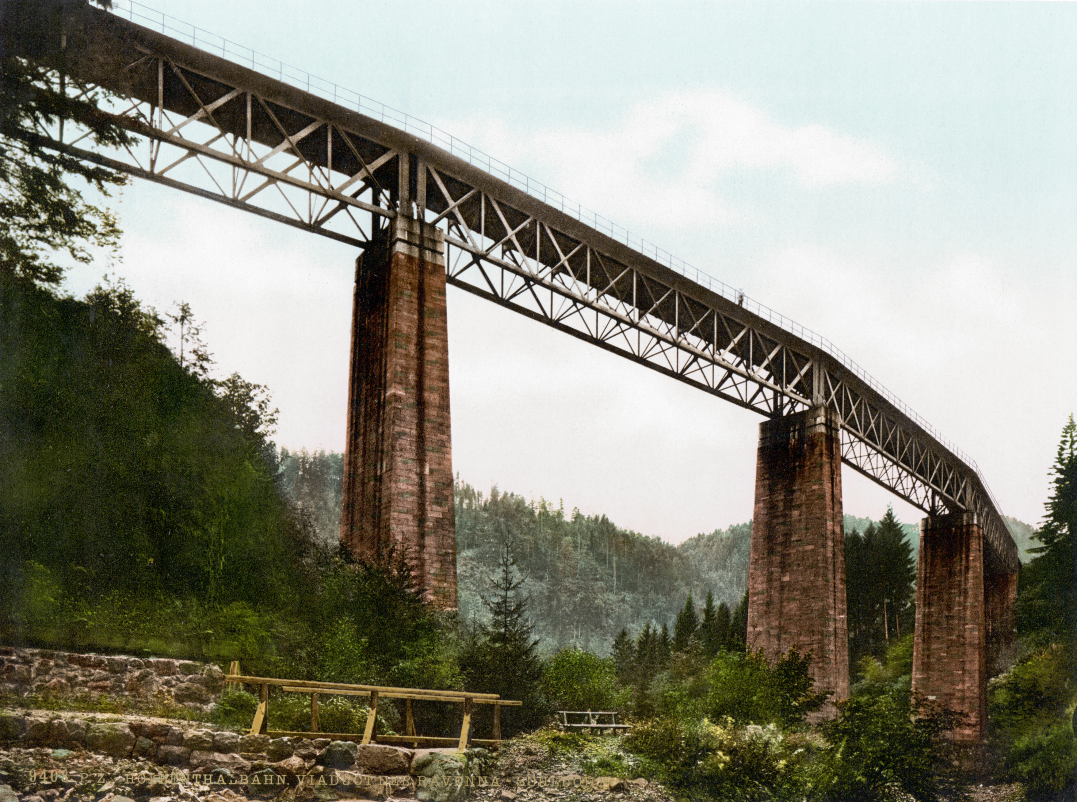 The Ravenna gorge railway viaduct of the "Höllentalbahn", Black Forest, Germany, circa 1900.